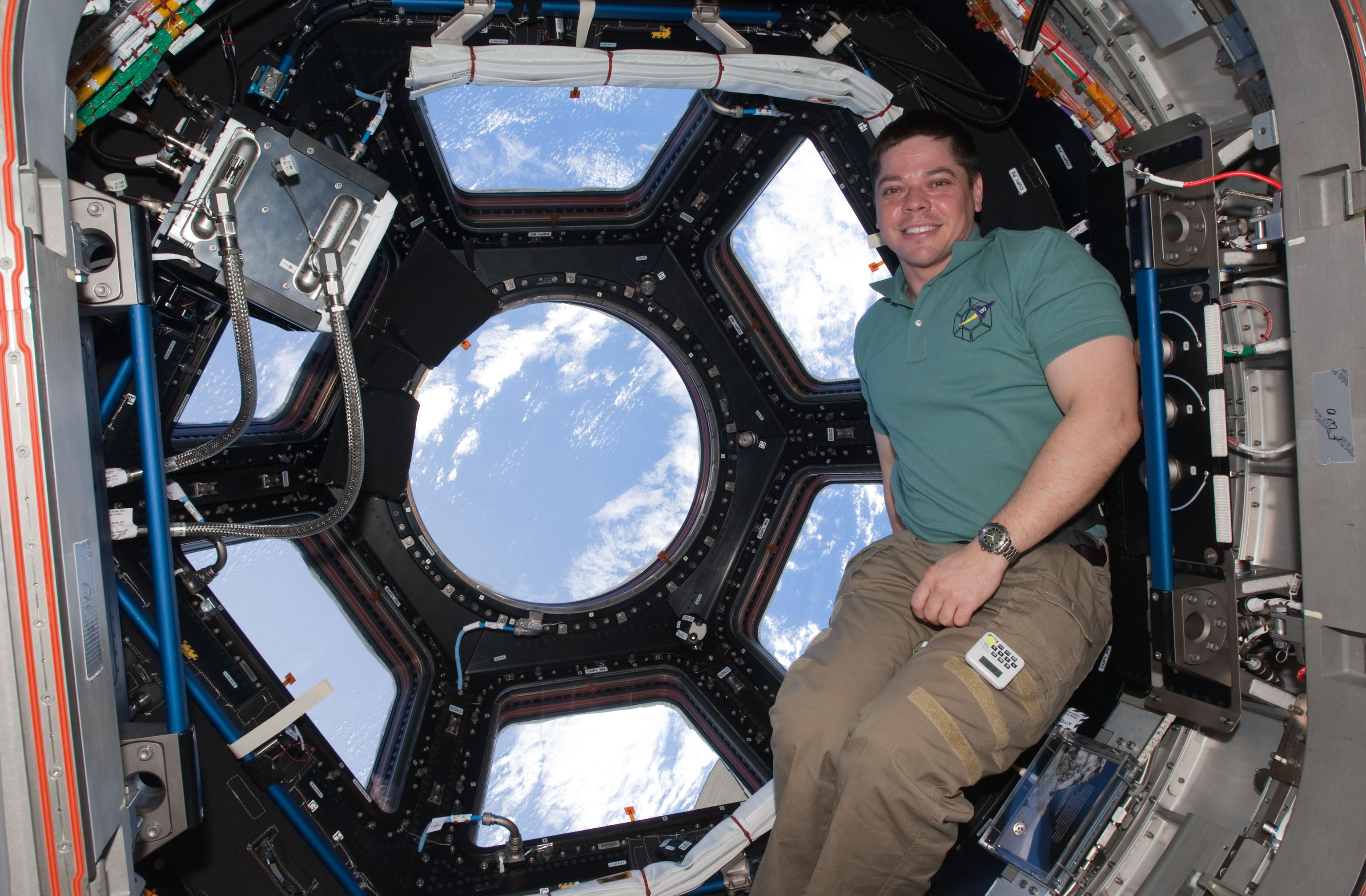 Backdropped against vistas of Earth below, Mission Specialist Robert Behnken works inside the newly-installed cupola.